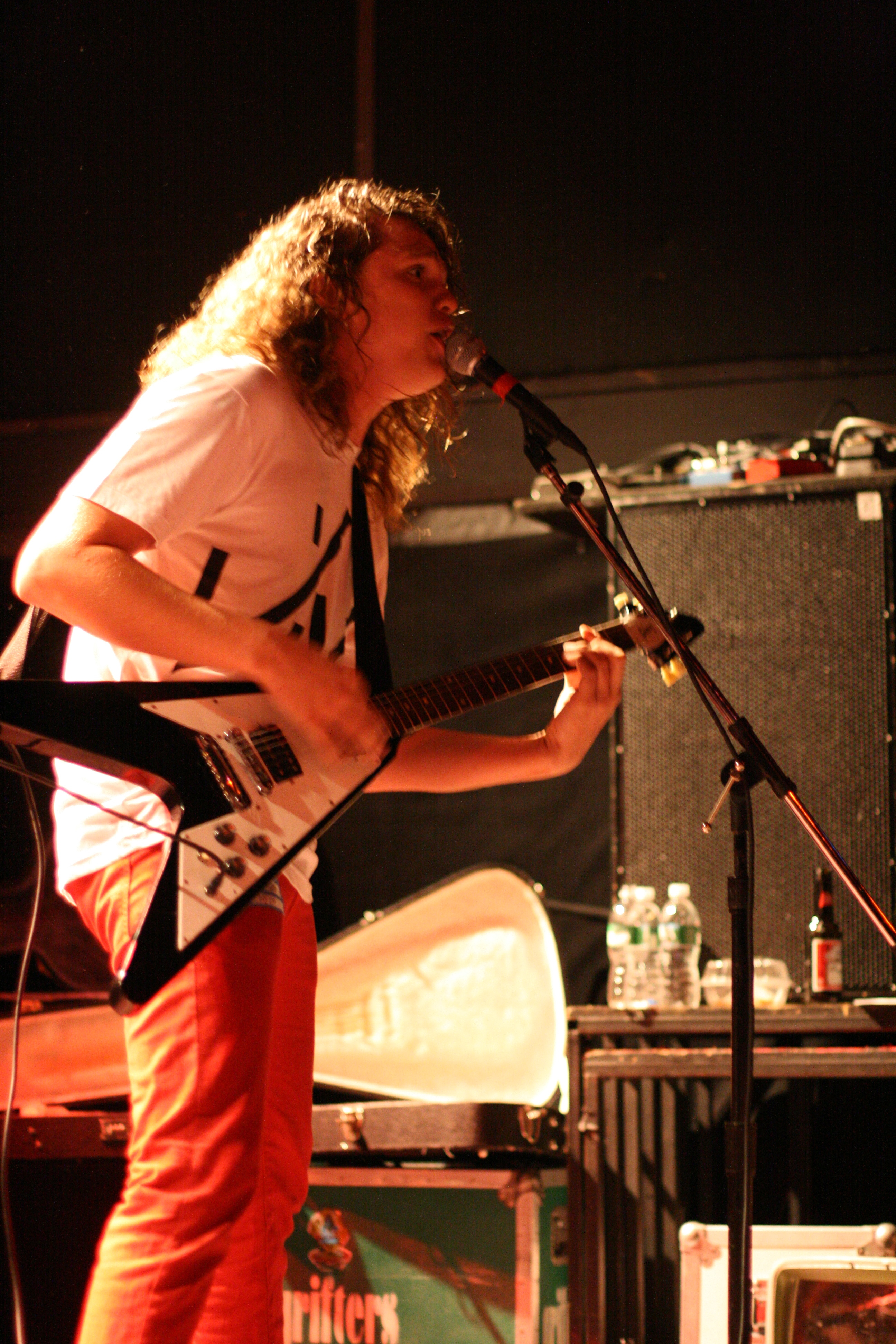 Jay Reatard